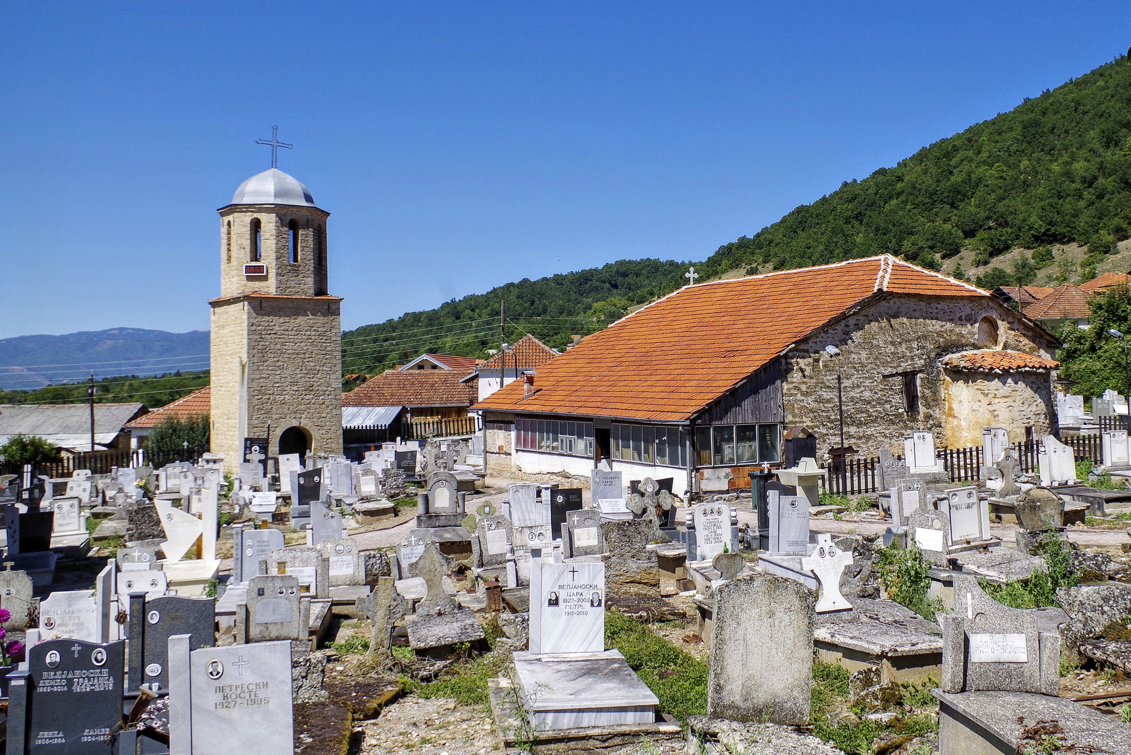 View of St. Nicholas Church with cemetery in the village Velmej, Macedonia